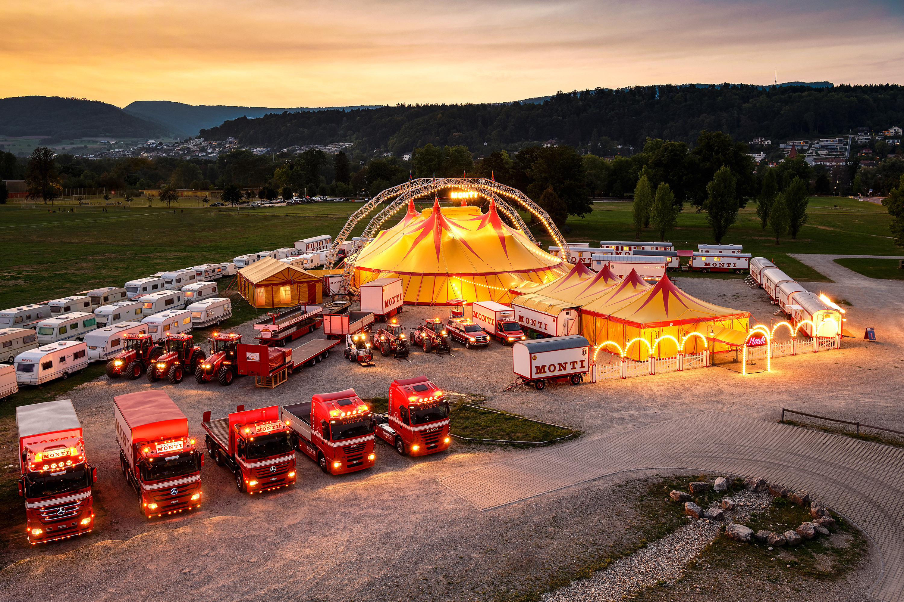 Circus Monti 2018 in Aarau (CH)